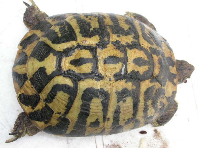 Testudo hermanni hermanni, from Murgie, Puglia, Italia, female 115 years old.